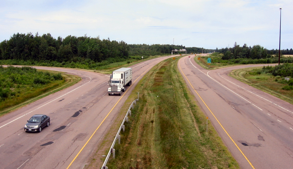 Divided section of Route 11 outside Shediac. Self made; cropped and edited for contrast